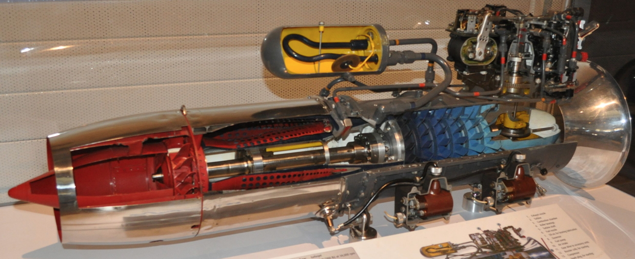 Cut-away Westinghouse 9.5A turbojet engine on display at the Steven F. Udvar-Hazy Center